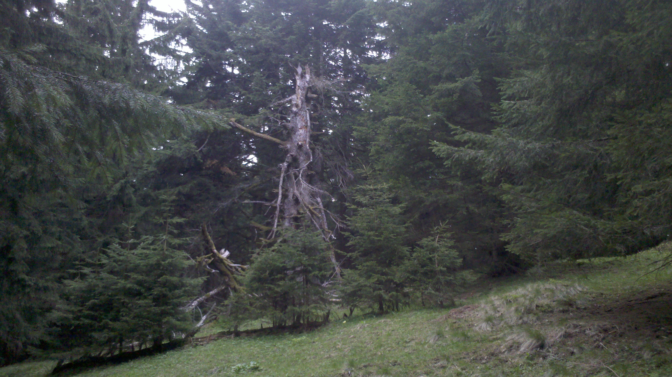 Summit of Schweinberg